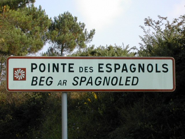 Roadsign of the cap of the Spaniards (presque-isle of Crozon).